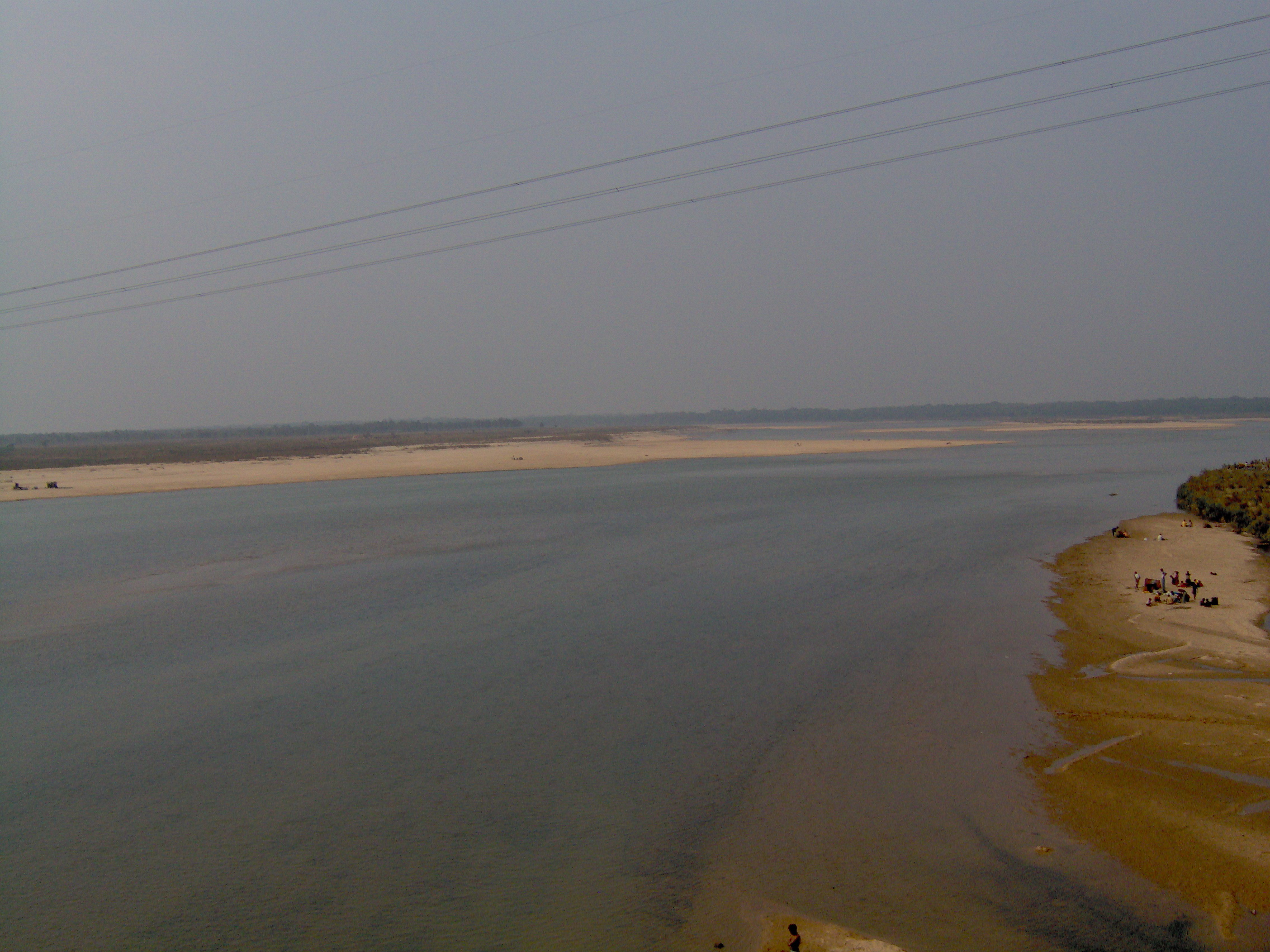 A picture of the Subarnarekha in December, 2005 taken at Gopiballavpur, District Paschim Medinipur, West Bengal.--Antorjal 05:15, 21 August 2006 (UTC)